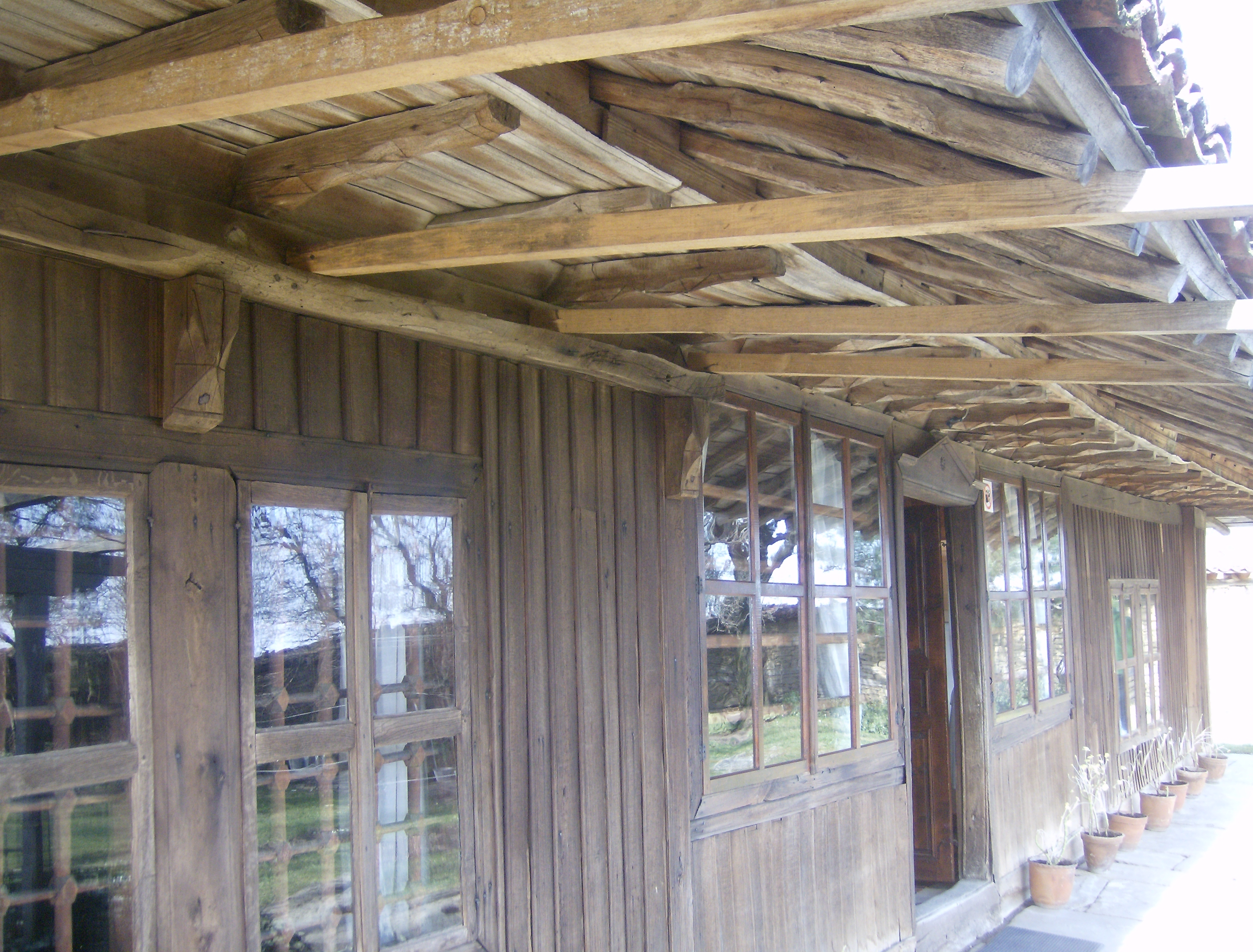 Zheravna